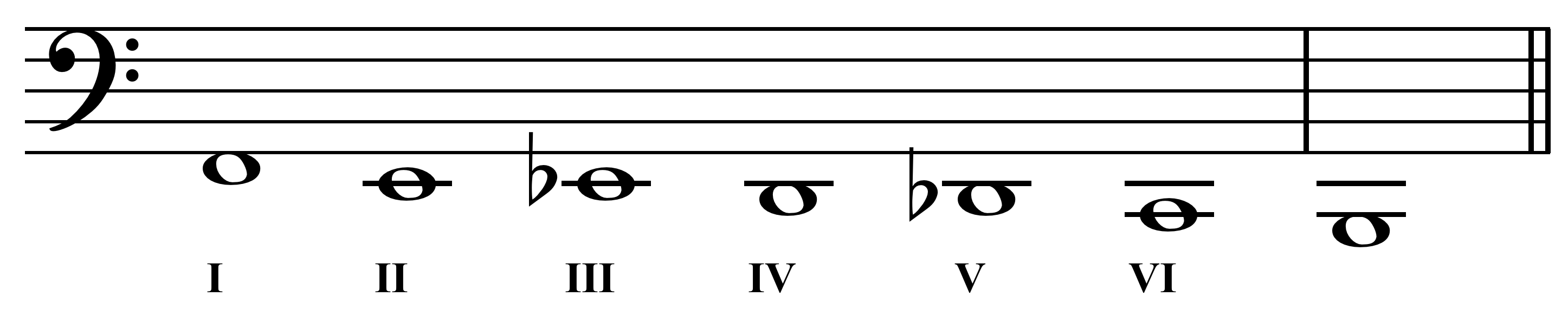 Trombone with F attachment slide position second harmonics. Created by Hyacinth (talk) 05:39, 3 December 2009 using Sibelius 5.